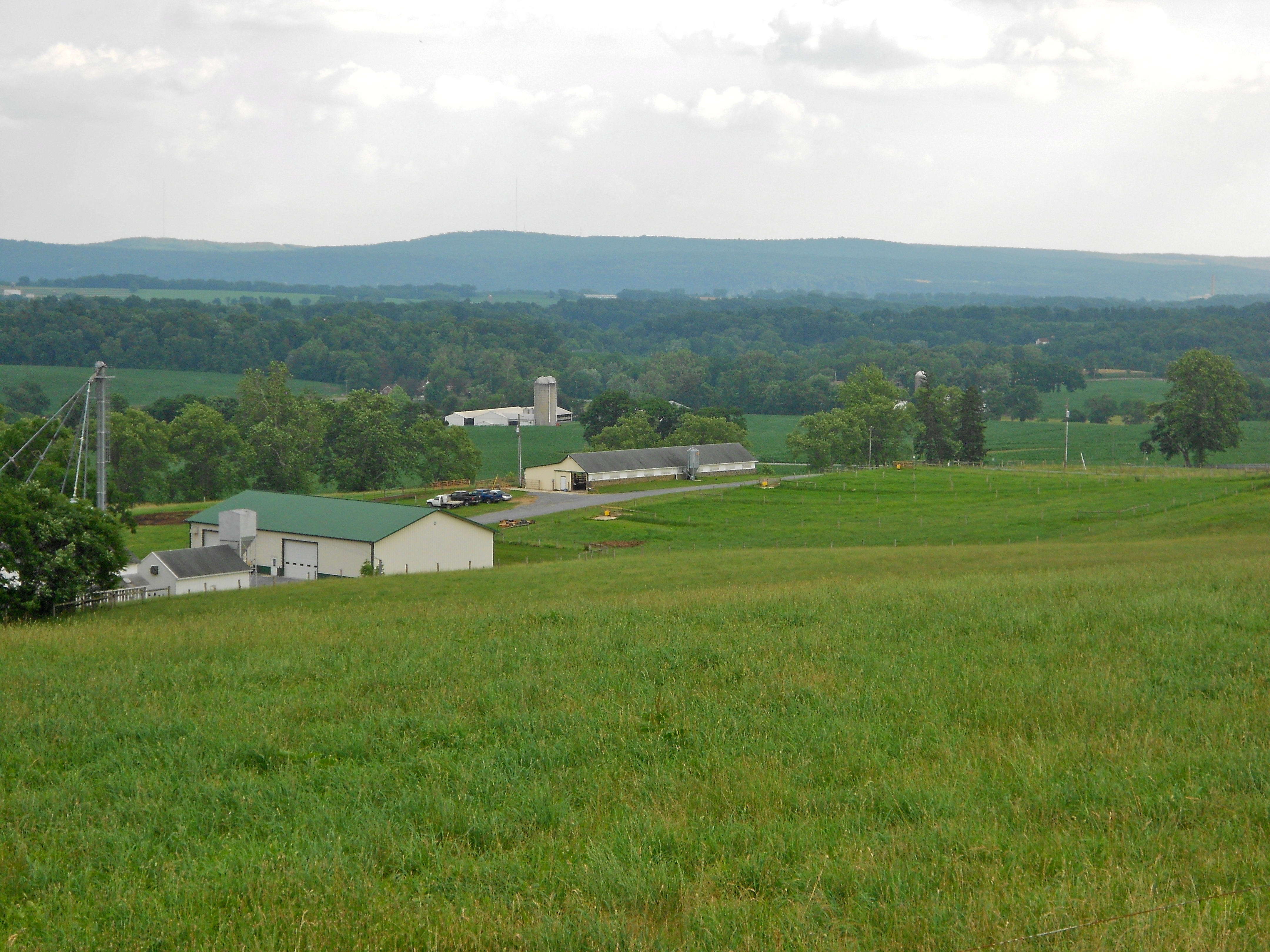 Looking west from West Donegal Township in Lancaster County, Pennsylvania. From the ridge in the Masonic Retirement Community near Elizabethtown. A resident said that this was the highest point in the county. The hills in the background are in York County on the west side of the Susquhanna River